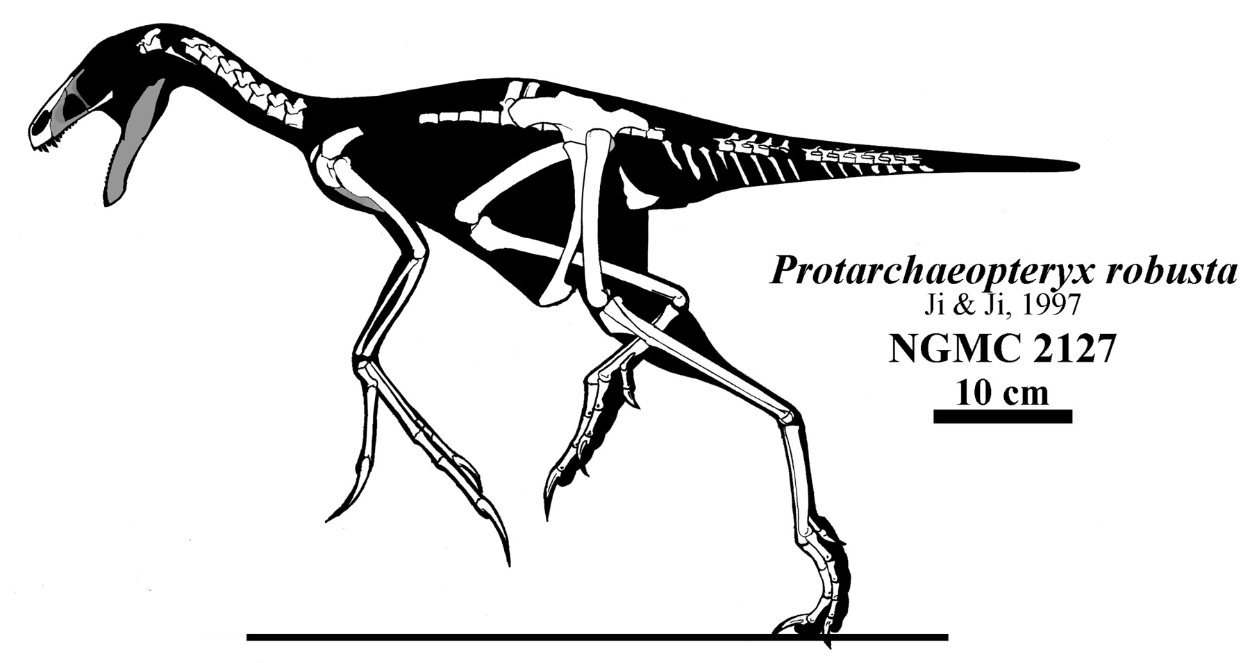 Reconstructed skeleton of Protarchaeopteryx robusta